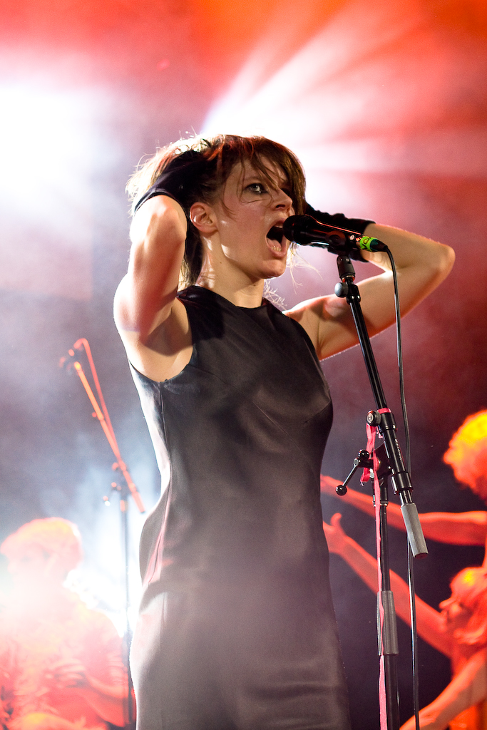 Camille live in Melbourne (Australia).